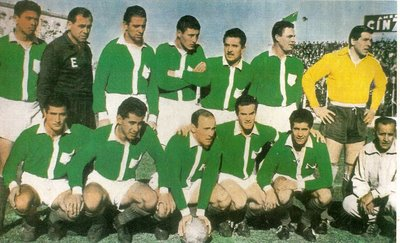 The 1958 Ferro Carril Oeste team, that won the Primera B championship that same year.